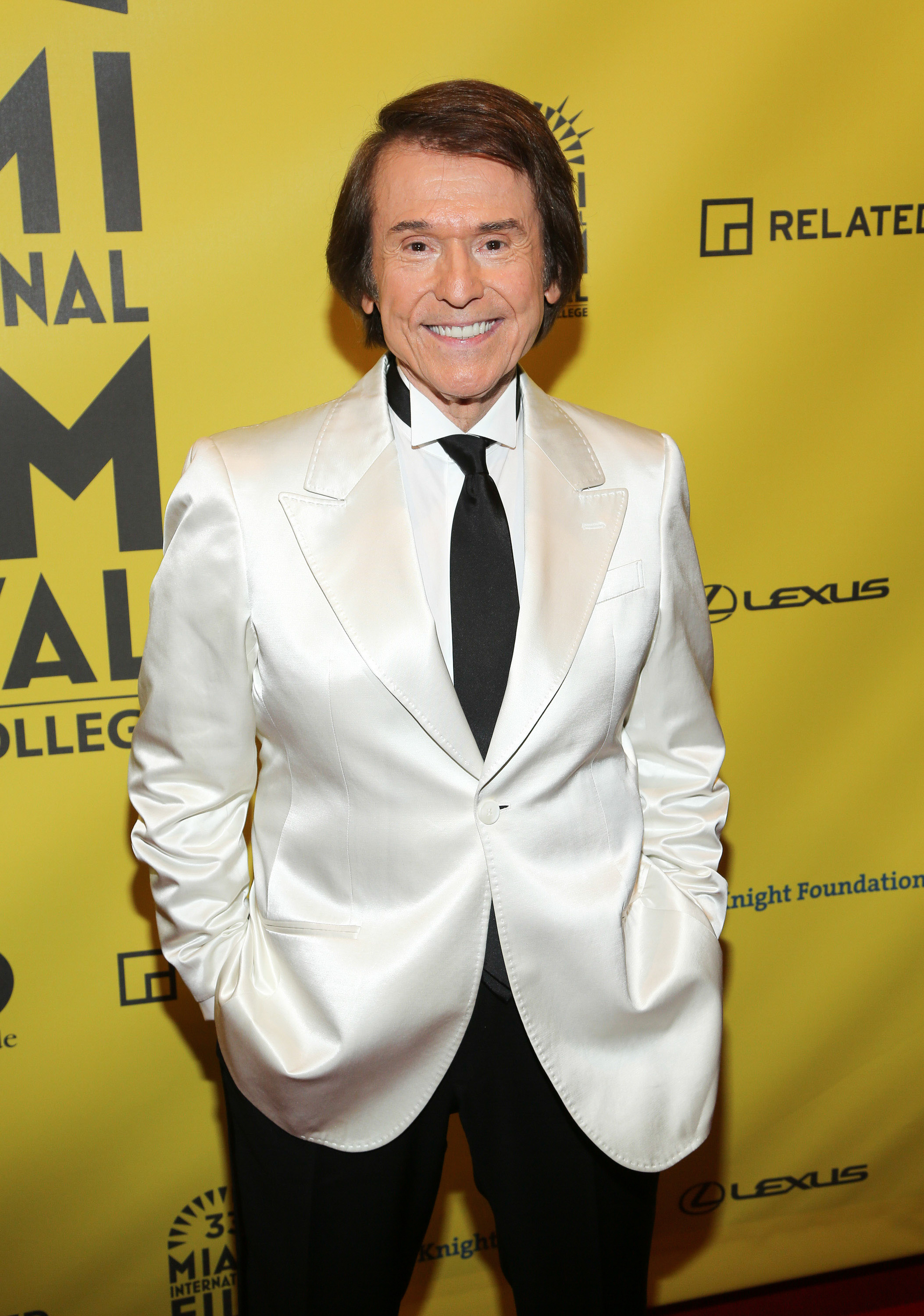 Spanish singer Raphael on the red carpet at the 2014 Miami International Film Festival 2016 'My Big Night' opening night at Olympia Theater At Gusman Hall in Miami, Florida. Photo: Alberto Tamargo